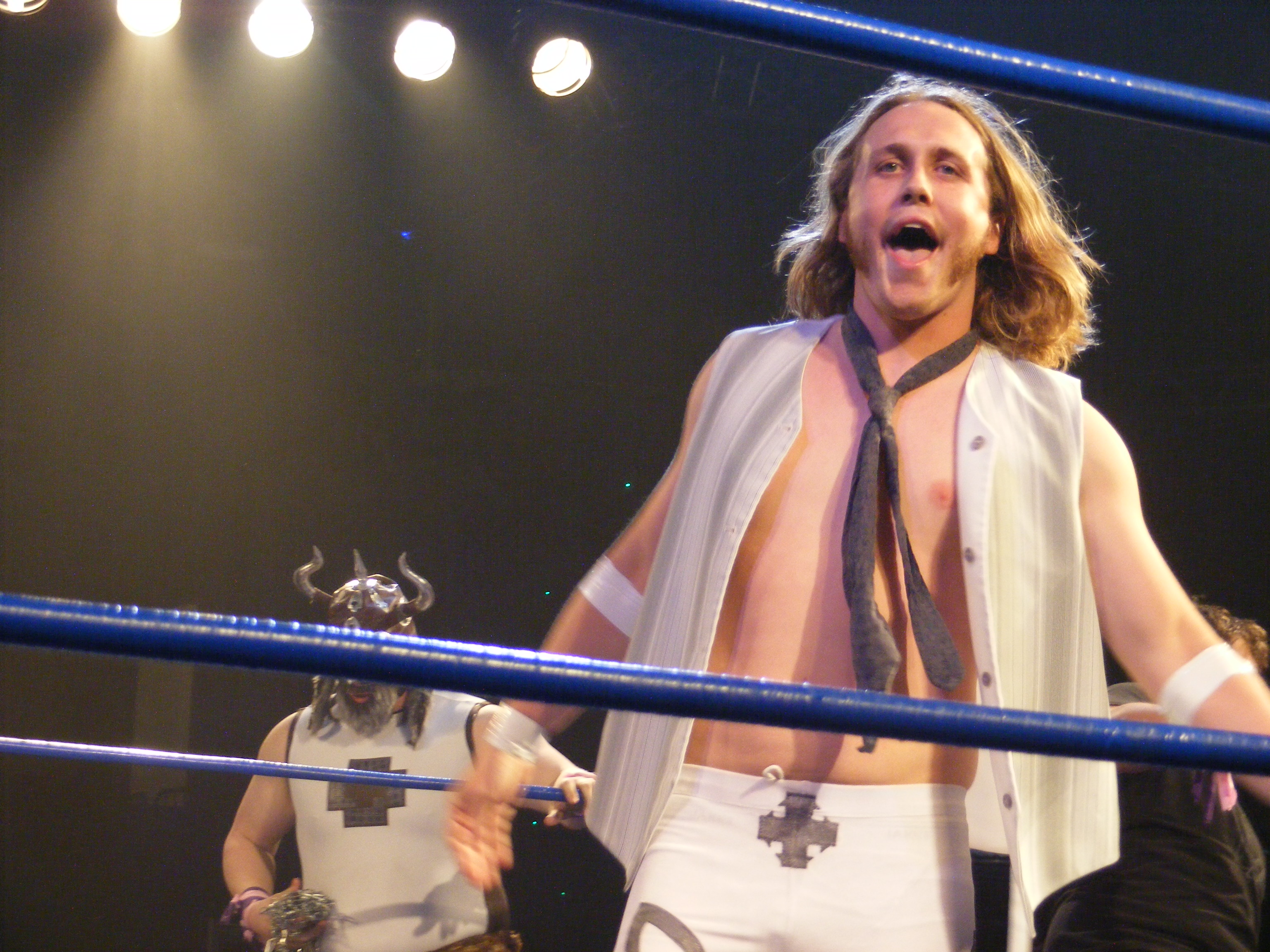 Professional wrestler Jakob Hammermeier at Chikara King of Trios 2011.